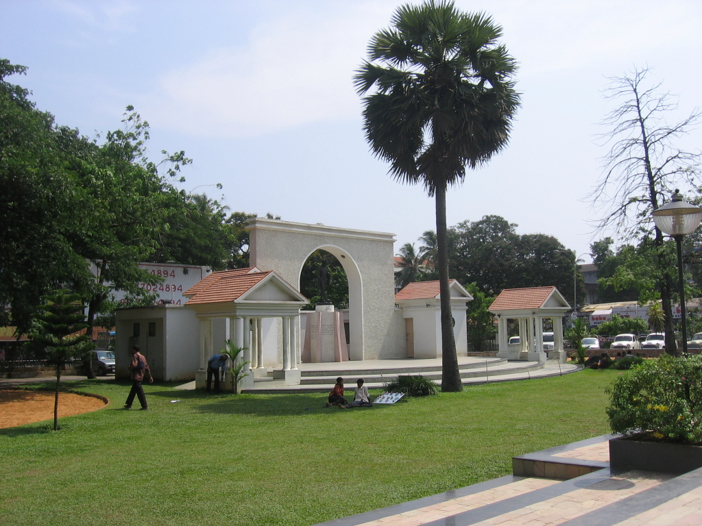 PHOTOGRAPHER : Rajith Mohan